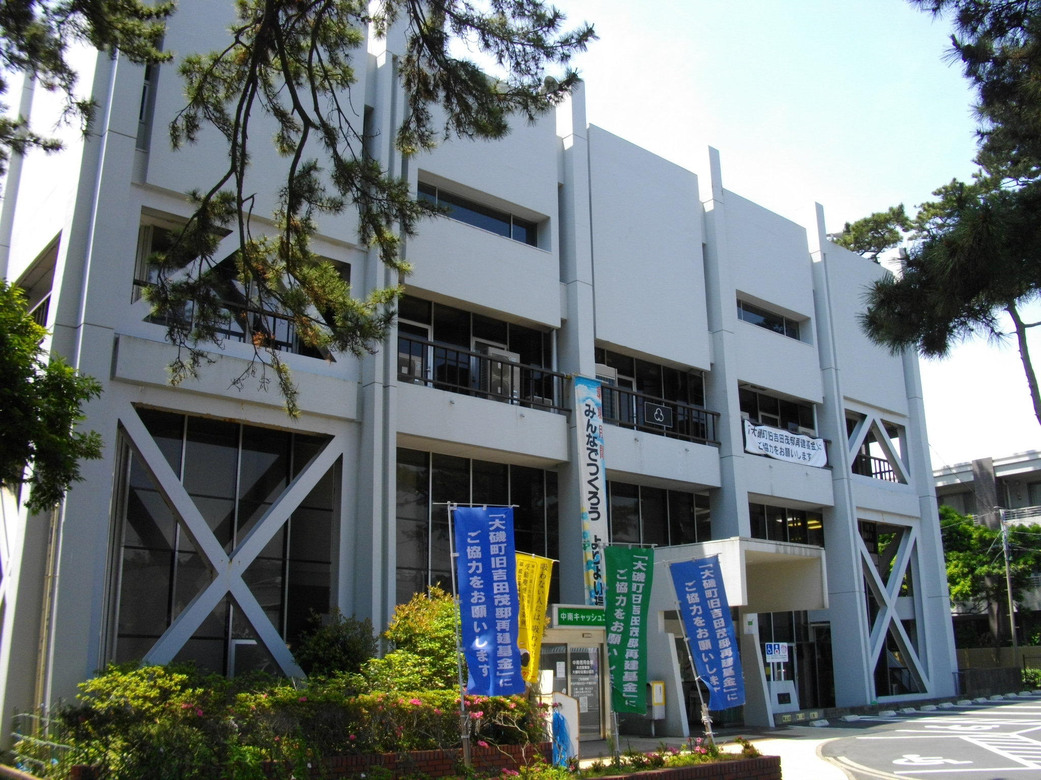 Oiso Town Office